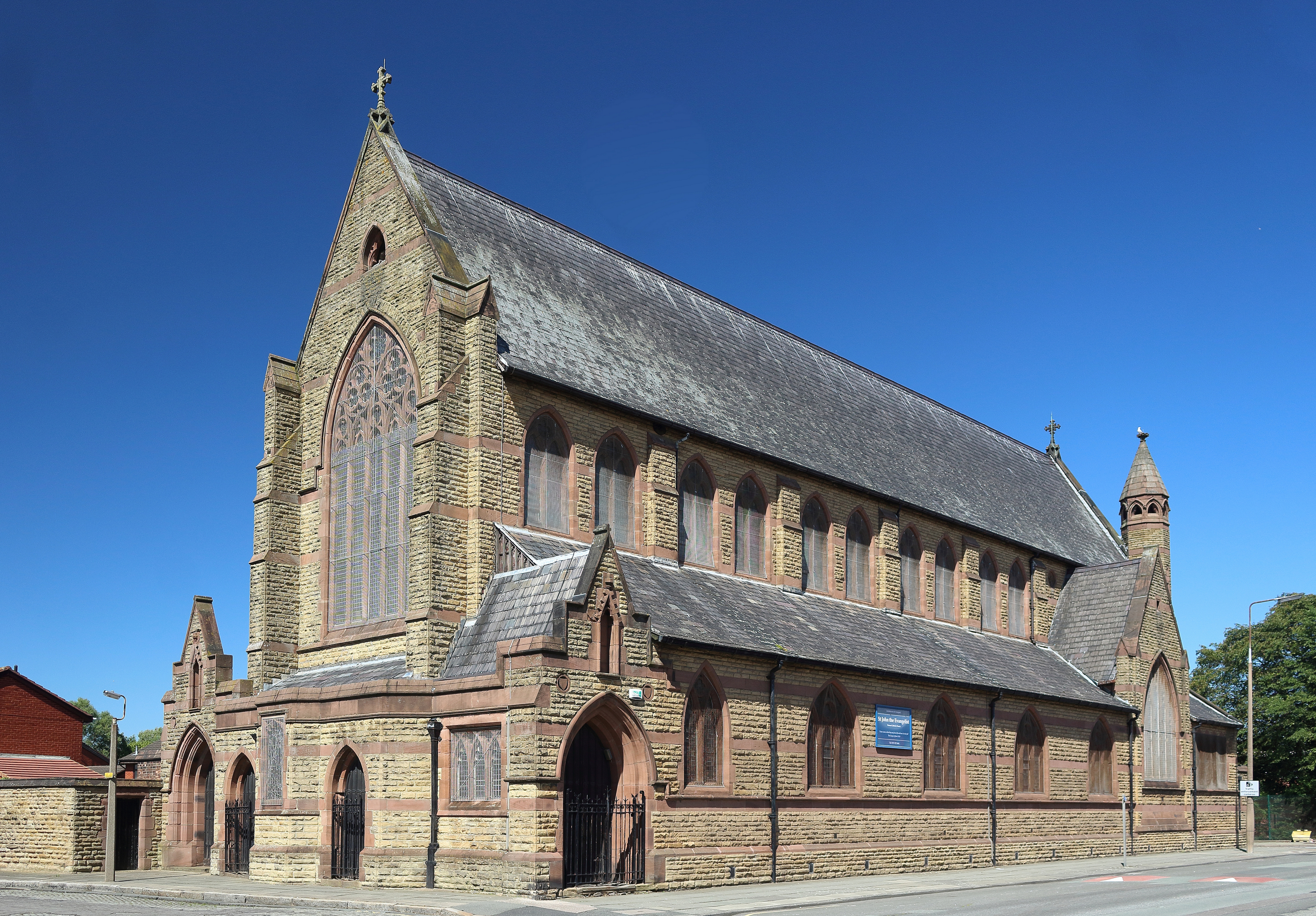 Grade II listed church on Fountains Road, Kirkdale, Liverpool, built 1885. View from the southwest